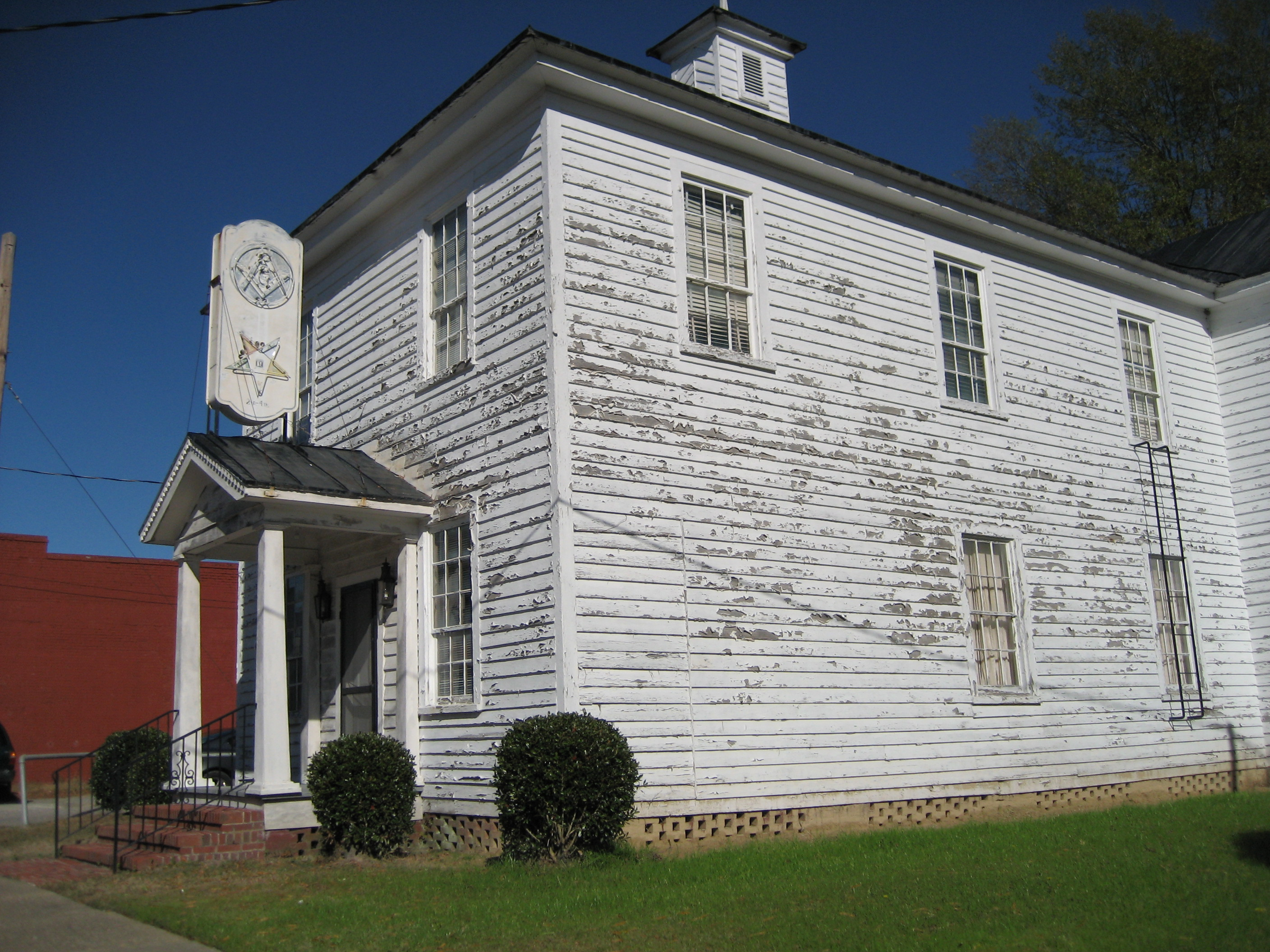 Stonewall Masonic Lodge, Robersonville, North Carolina